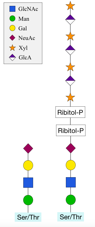 O-Mannose sugars are found on serine and threonine residues in alpha-dystroglycan and can be modified with ribitol, xylose and glucuronic acid as shown.